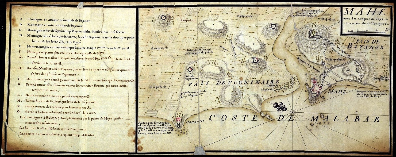 The French settlement of Mahé on the Malabar coast of India. Map drawn in 1726 soon after the town was recaptured from the Indian raja who, after having ceded it to the French East India Company in 1721 had taken it back by force it 1725 under the urging of the British established nearby.